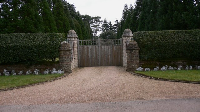 Gateway to Hascombe Court - England. Hascombe Court is a the 172-acre (0.70 km2) property in Godalming, Surrey,best known for its garden designed by Gertrude Jekyll in the 1920s.